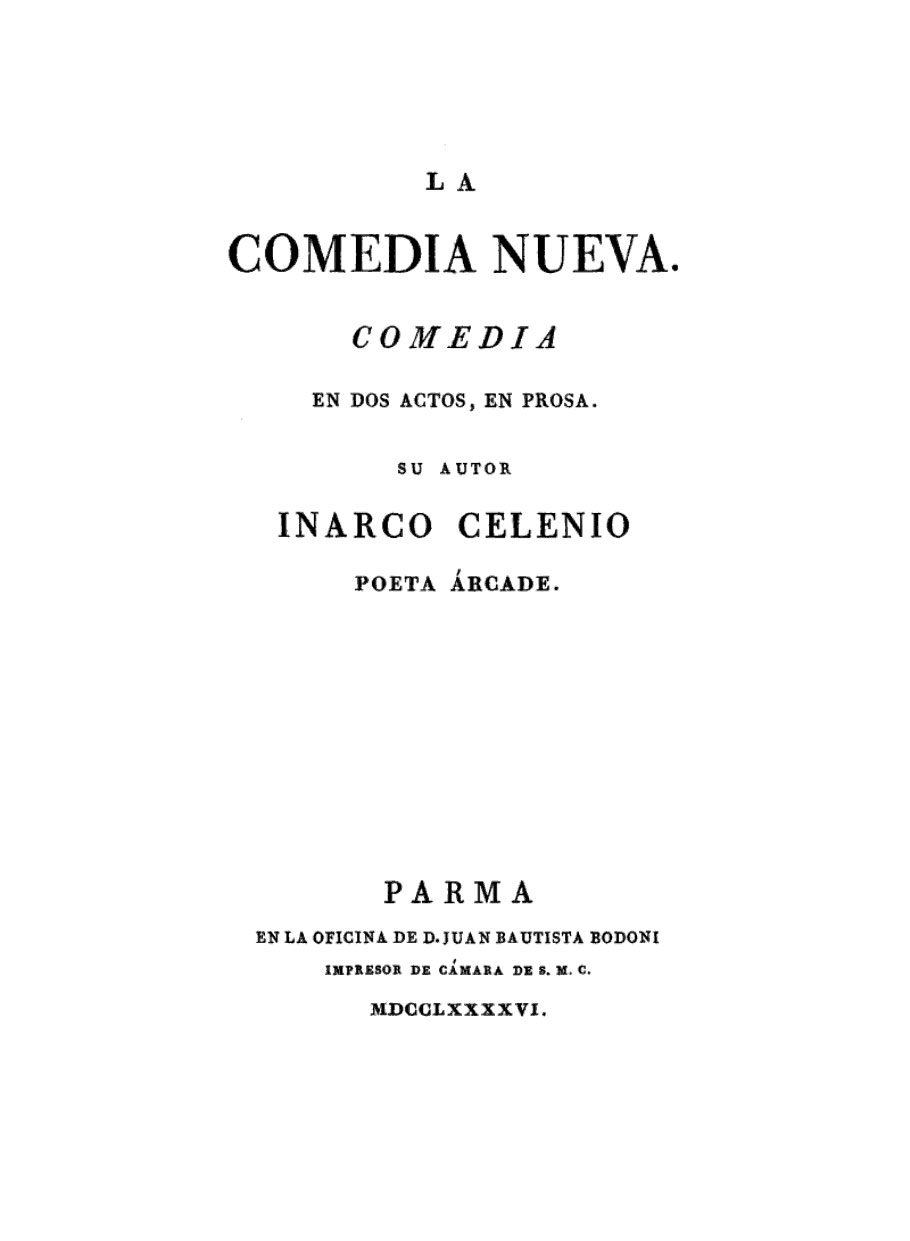 Title-page of the "La comedia nueva" printed by Giambattista Bodoni in 1796.